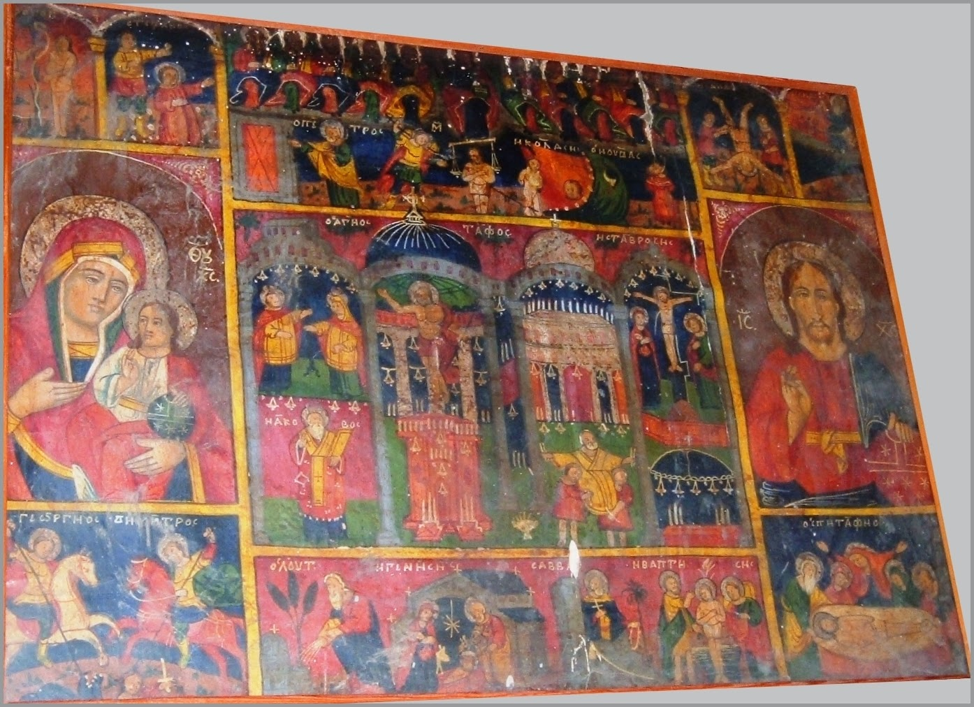 Icon_in_Saint_Eustathius_Church_Melas_Statitsa